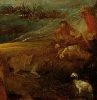 Giovanni Cariani (c. 1485-1547), The Adoration of the Shepherds c. 1515-17, Oil on poplar panel, 73.6 x 120.3 cm, Royal Collection RCIN 402846. See Royal Collection page